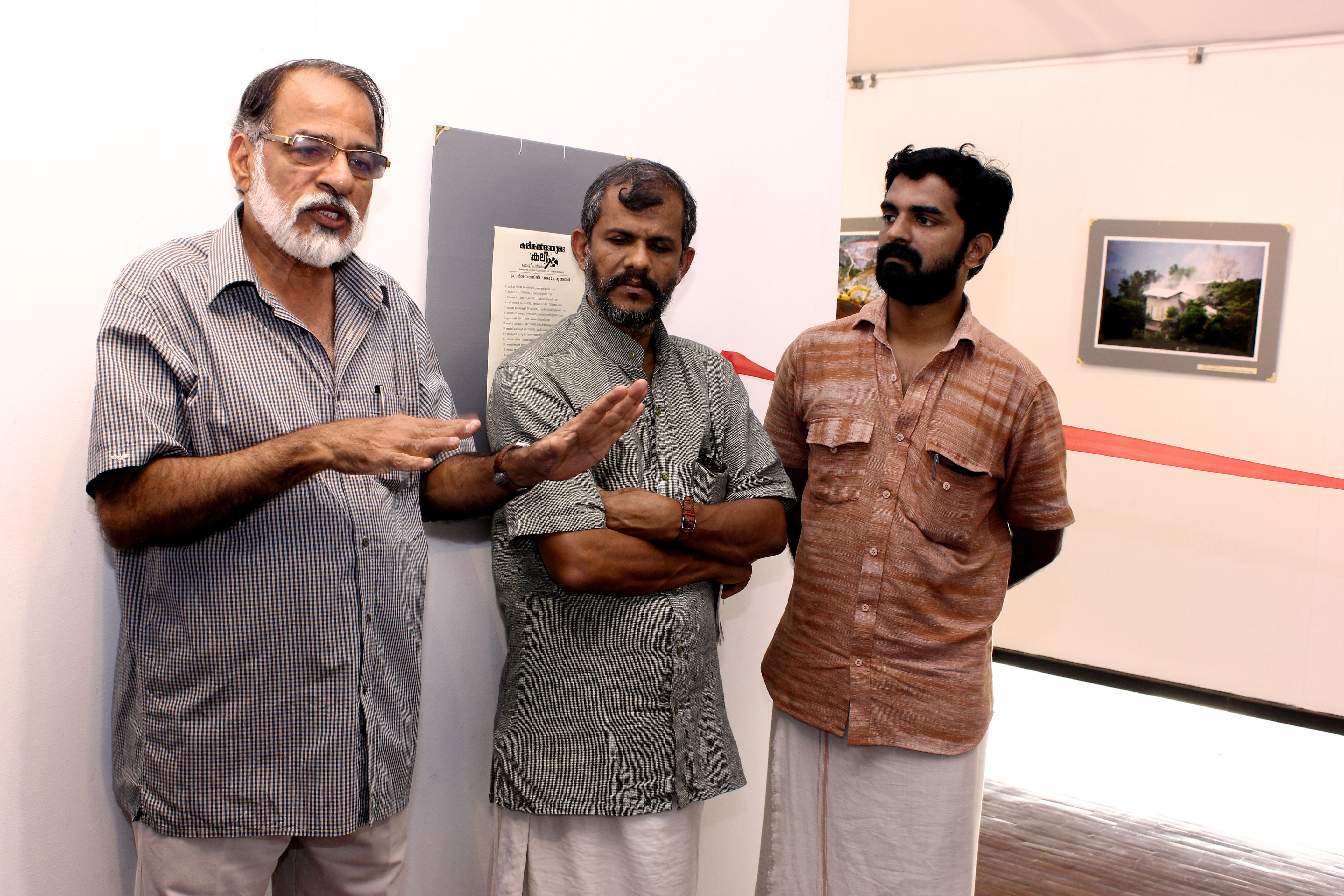 കോഴിക്കോട് ലളിതകലാ അക്കാദമി ആർട്ട്ഗ്യാലറിയിൽ വെച്ചുനടന്ന കരിങ്കൽമടയുടെ കലി ഫോട്ടോ പ്രദർശനം എം.എ റഹ്മാൻ ഉദ്ഘാടനം ചെയ്യുന്നു